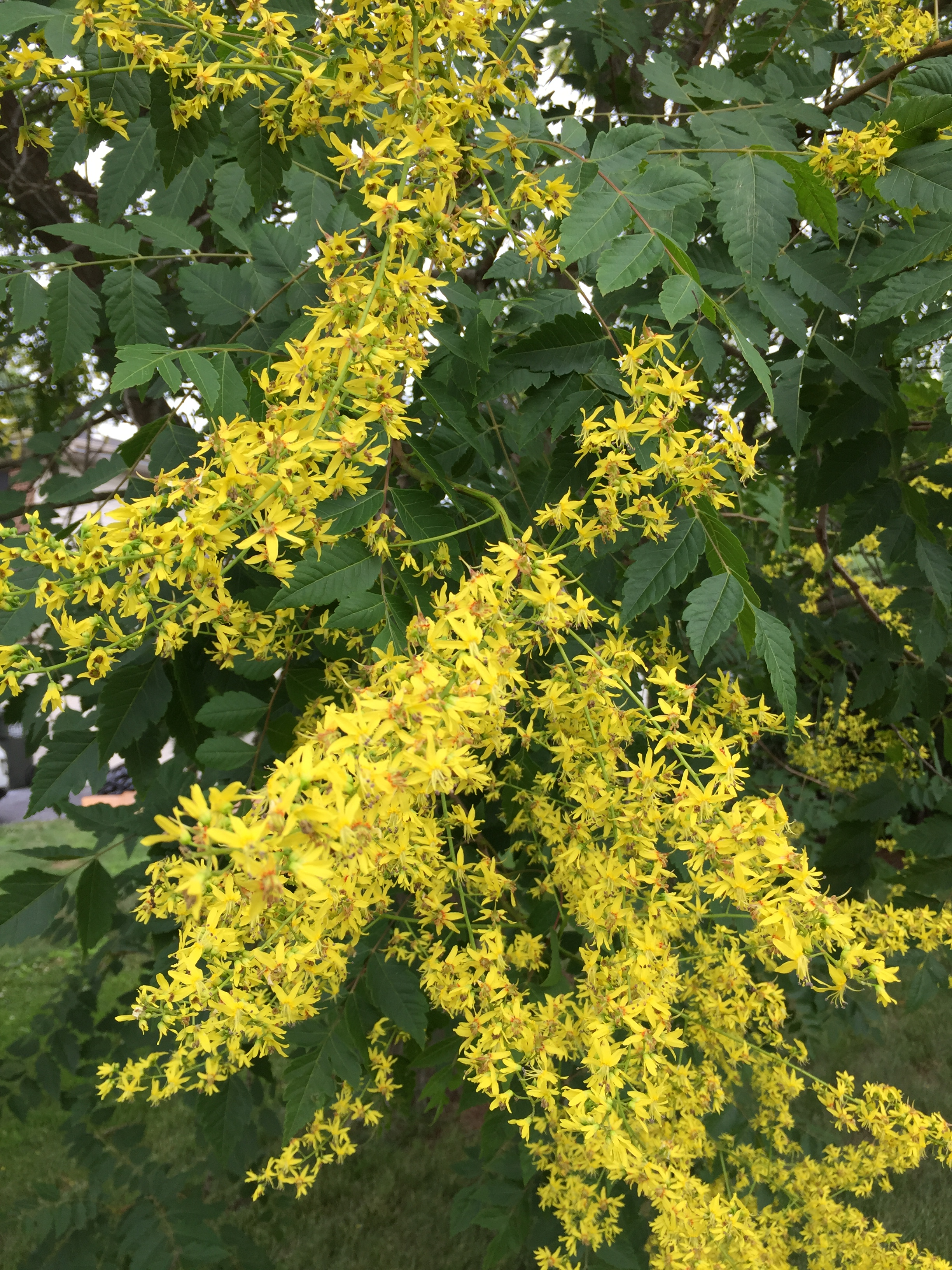 Goldenrain Tree blossoms along Kinross Circle near Ravenscraig Court in the Chantilly Highlands section of Oak Hill, Fairfax County, Virginia